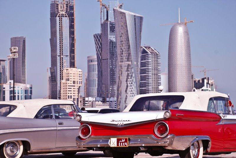 Classic cars in Doha.